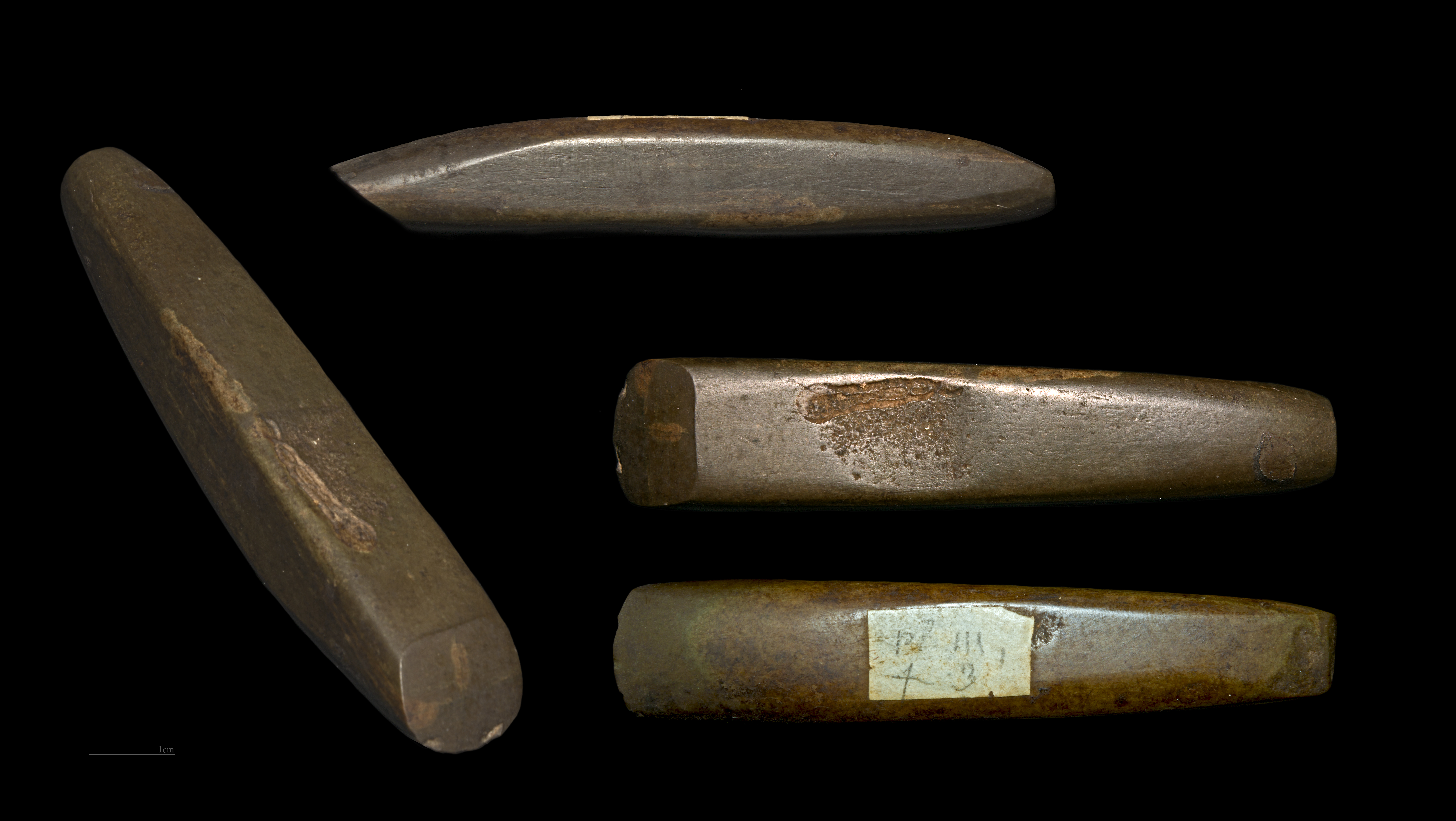 Polished stone chisel - multiple views of the same specimen - Harvested in 1876 Stage: Holocene Bronze age 1800-1500 BC Size :8.3x1.7x1.6cm Locality: Samrong Sen, Cambodge Collection: Jean Moura